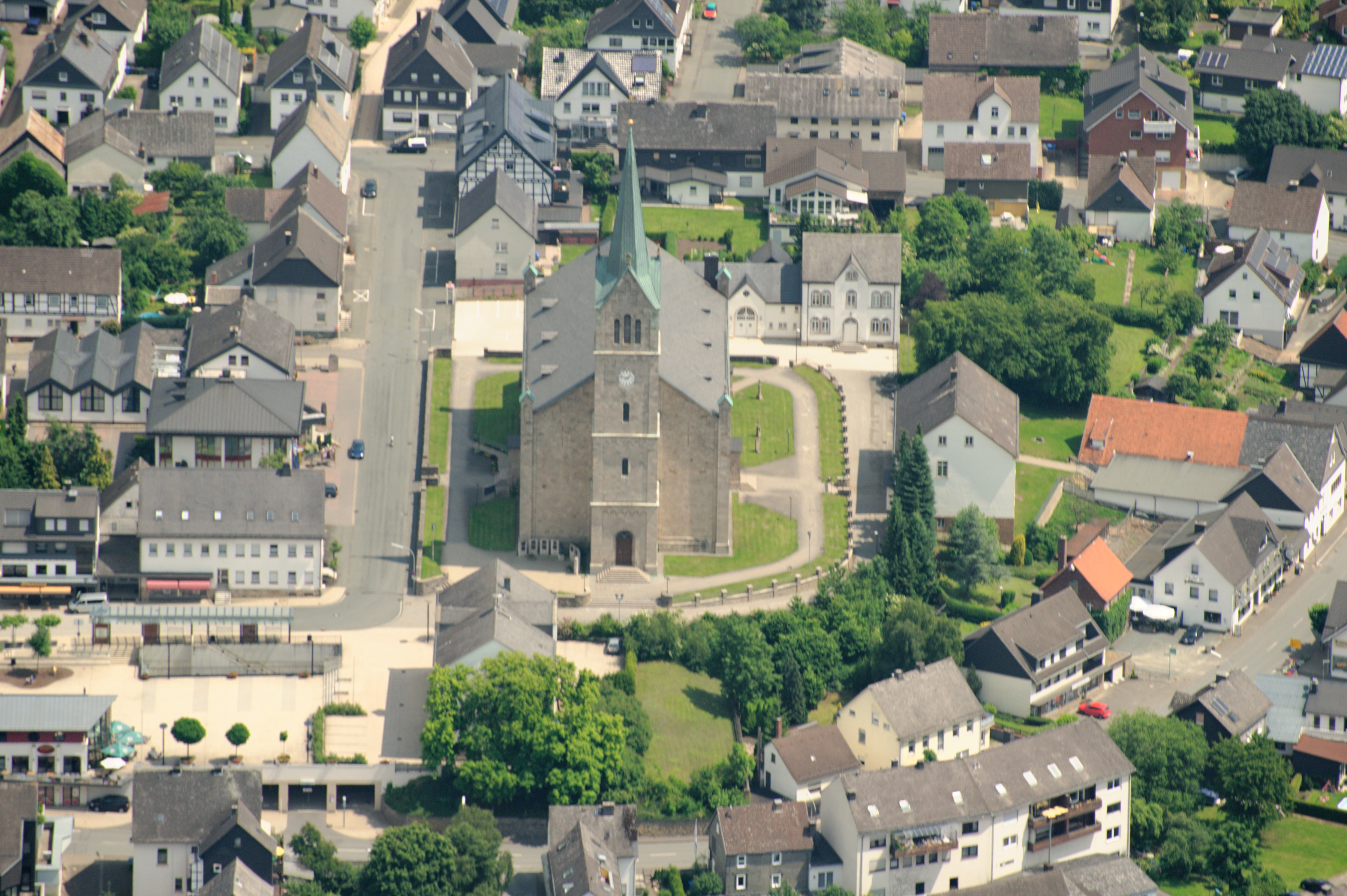 Fotoflug Sauerland-Ost: Pfarrkirche St. Peter und Paul (Medebach) in Medebach The making of this document was supported by the Community-Budget of Wikimedia Germany.